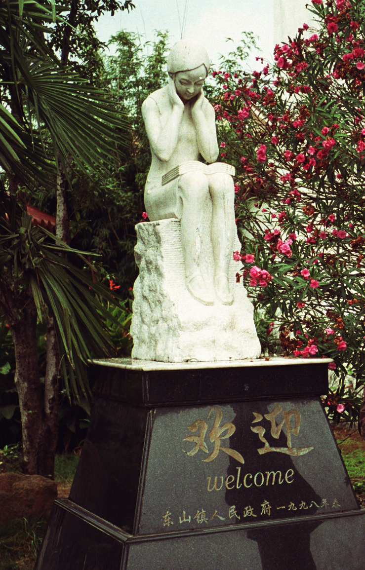 East Mount town of Suzhou